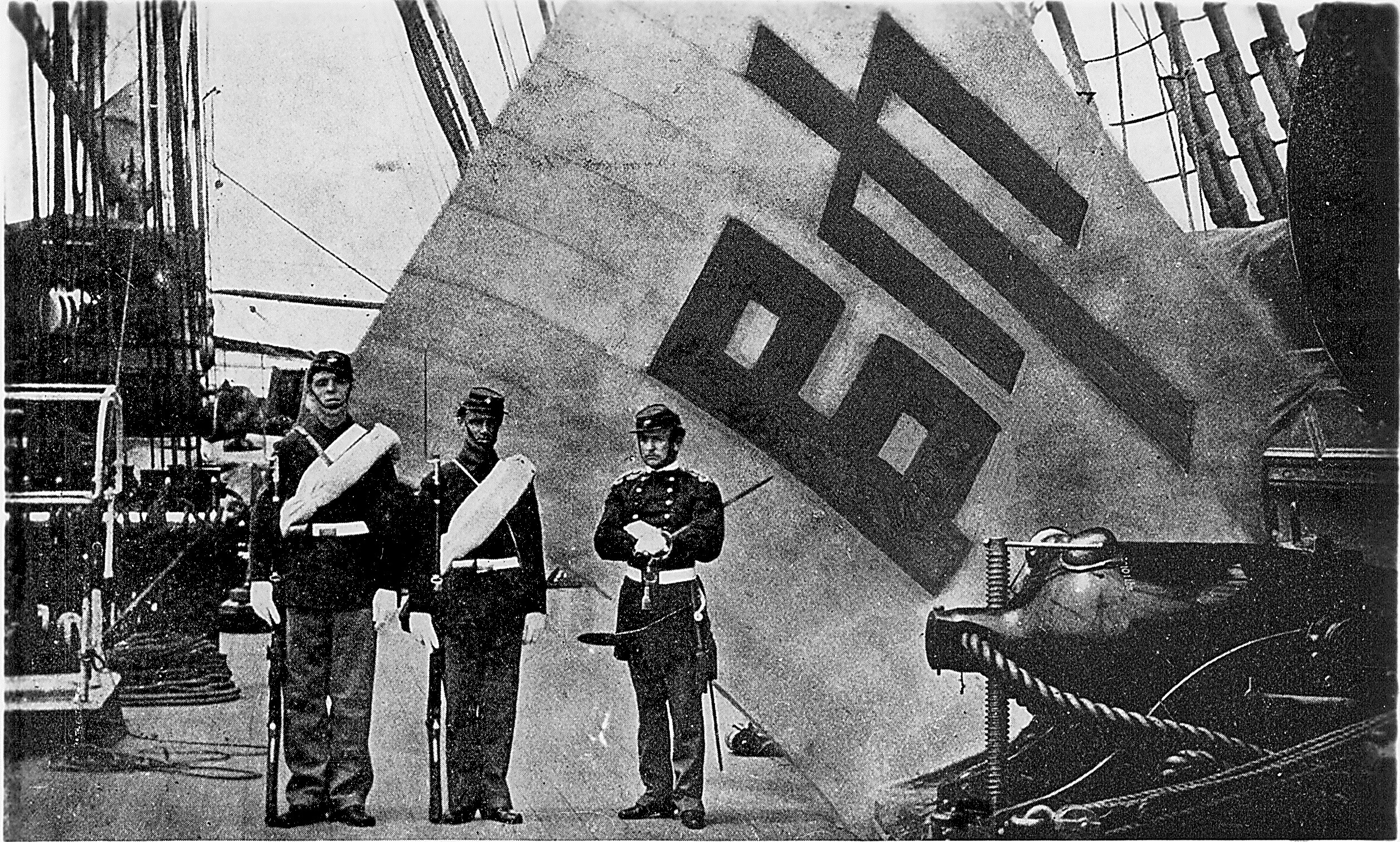 Sujagi flag, captured at Fort McKee in the attacks on the Salee River Forts, June 10 and 11, 1871, by Corporal Charles Brown of the USS Colorado (left) and Private Hugh Purvis of the USS Alaska (middle). Both were awarded the Medal of Honor. Captain McLane Tilton, USMC, (right) commanded the Marines. Photograph was taken on the USS Colorado, Captain George H. Cooper commanding, Flagship of Rear Admiral John Rodgers, commanding US Asiatic Fleet.